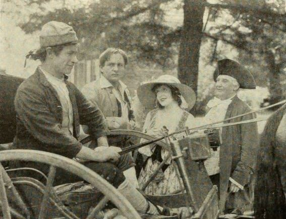 Still from the film The Headless Horseman (1922) with Will Rogers and Lois Meredith, on page 36 of the October 1922 Photoplay.